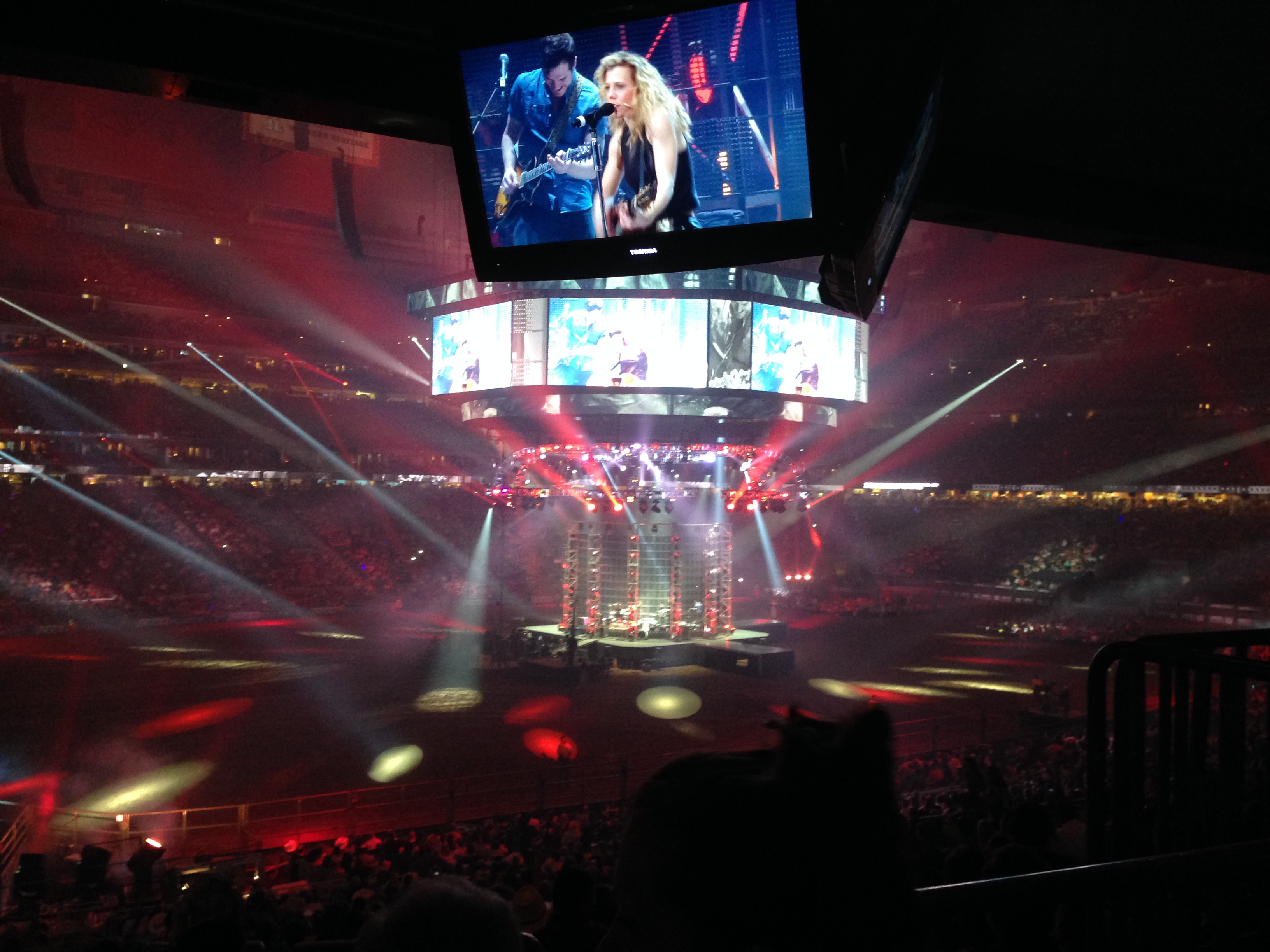 Band Perry in Reliant Stadium, Houston, Texas.